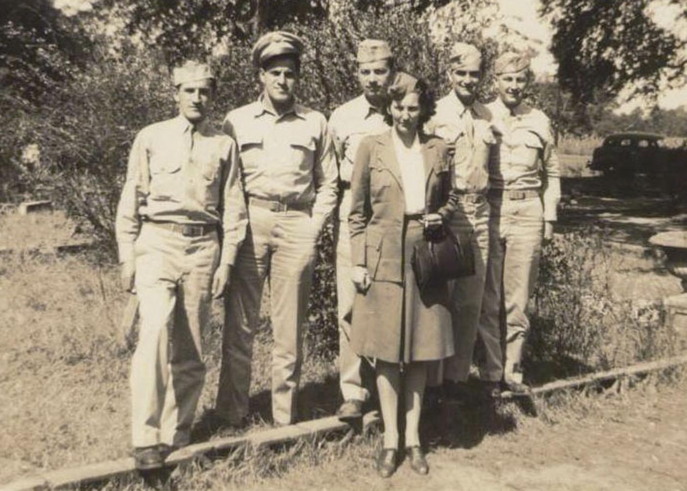 59th Fighter Group Army Air Corpsmen take a group photo at Thomasville Army Airfield, Ga. The 59th FG was in activated on May 1, 1944. On July 31, 1985, the unit was redesignated as the 59th Tactical Fighter Wing but remained inactive. The wing was finally reactivated and consolidated with the Wilford Hall U.S. Air Force Hospital on July 1, 1993